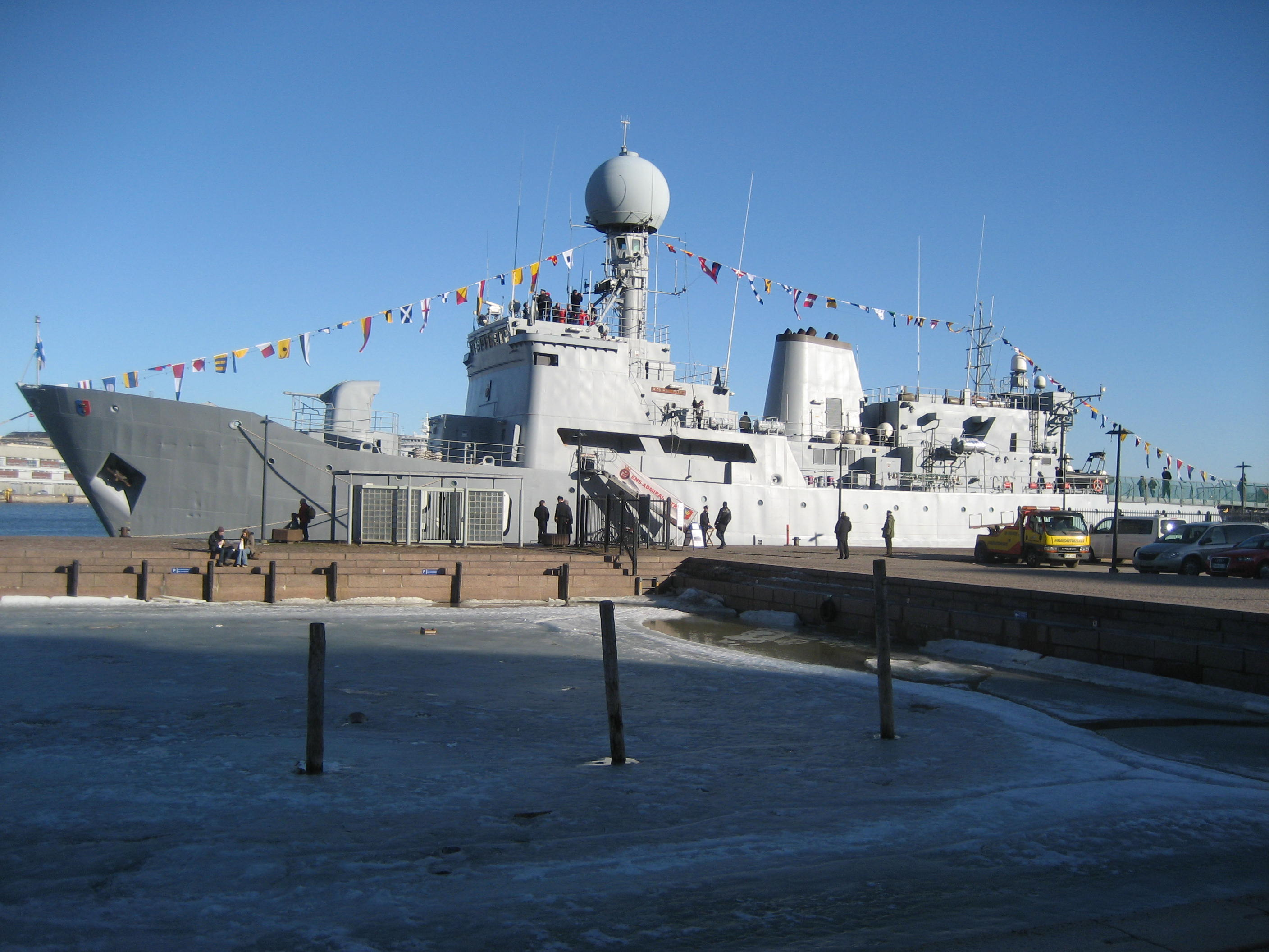 Admiral Pitka in Helsinki Southern Harbour (Eteläsatama)